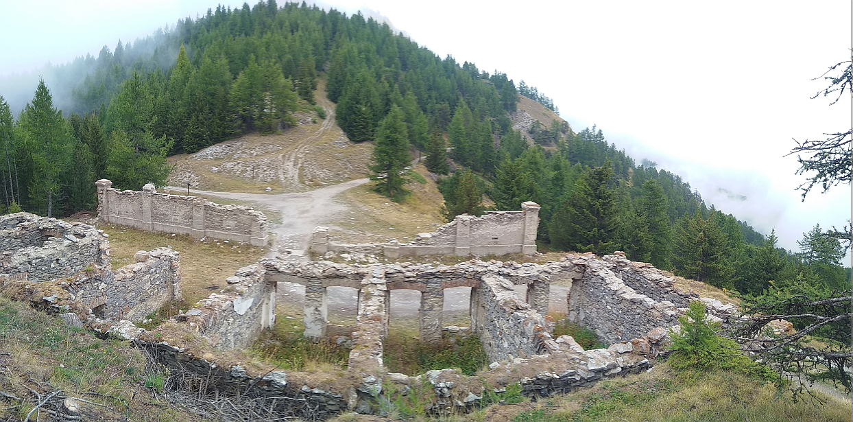 Forte Foens (Oulx, Italy): main entrance and military access road